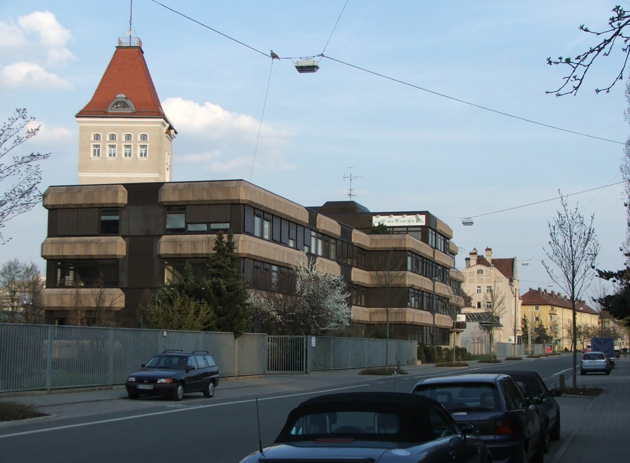 Building of the 'Infra Fürth GmbH' in Fürth/Germany